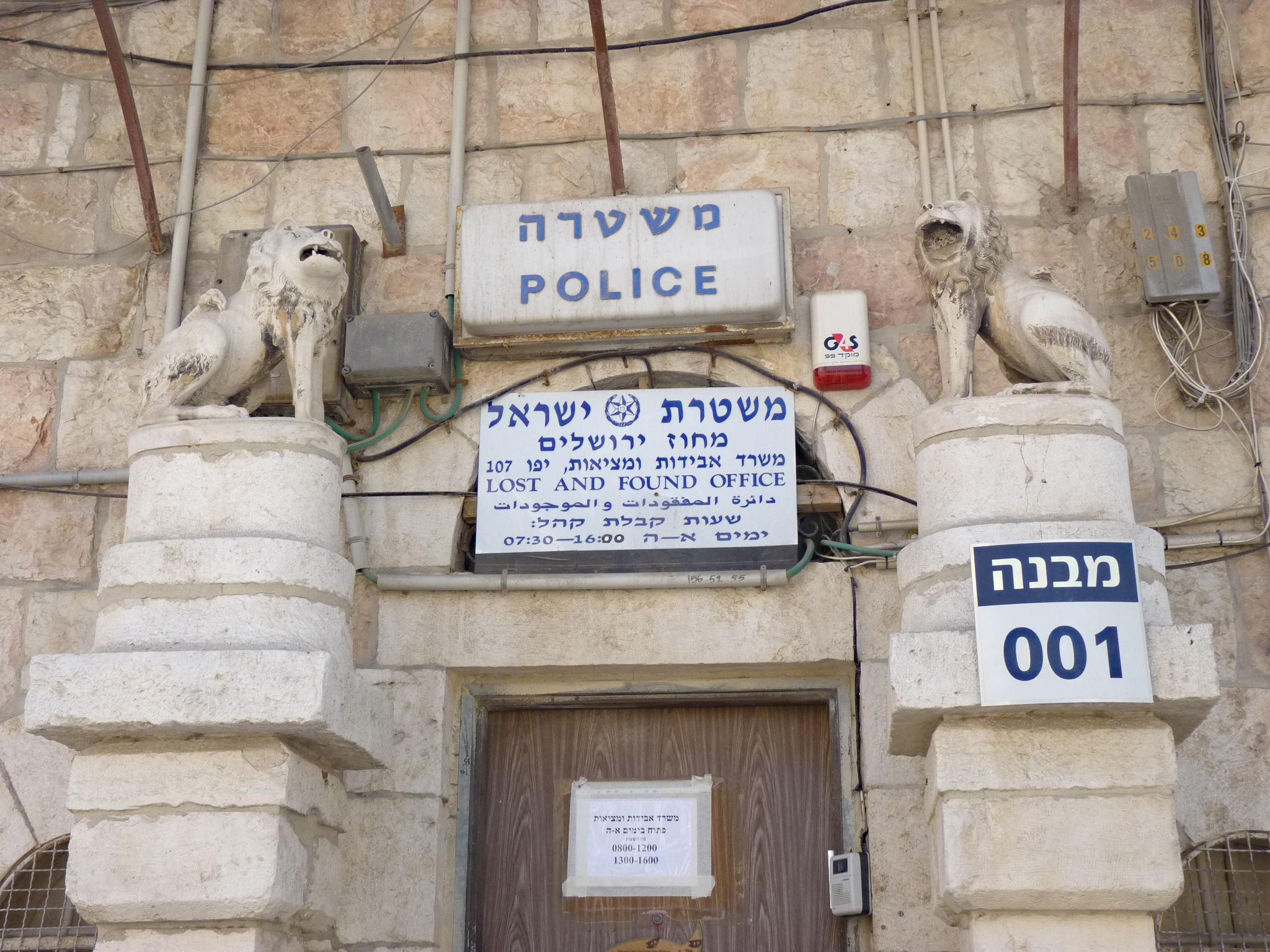 Jerusalem, Mahane Yehuda police station - The lion keeps an eye on the police and the police on us